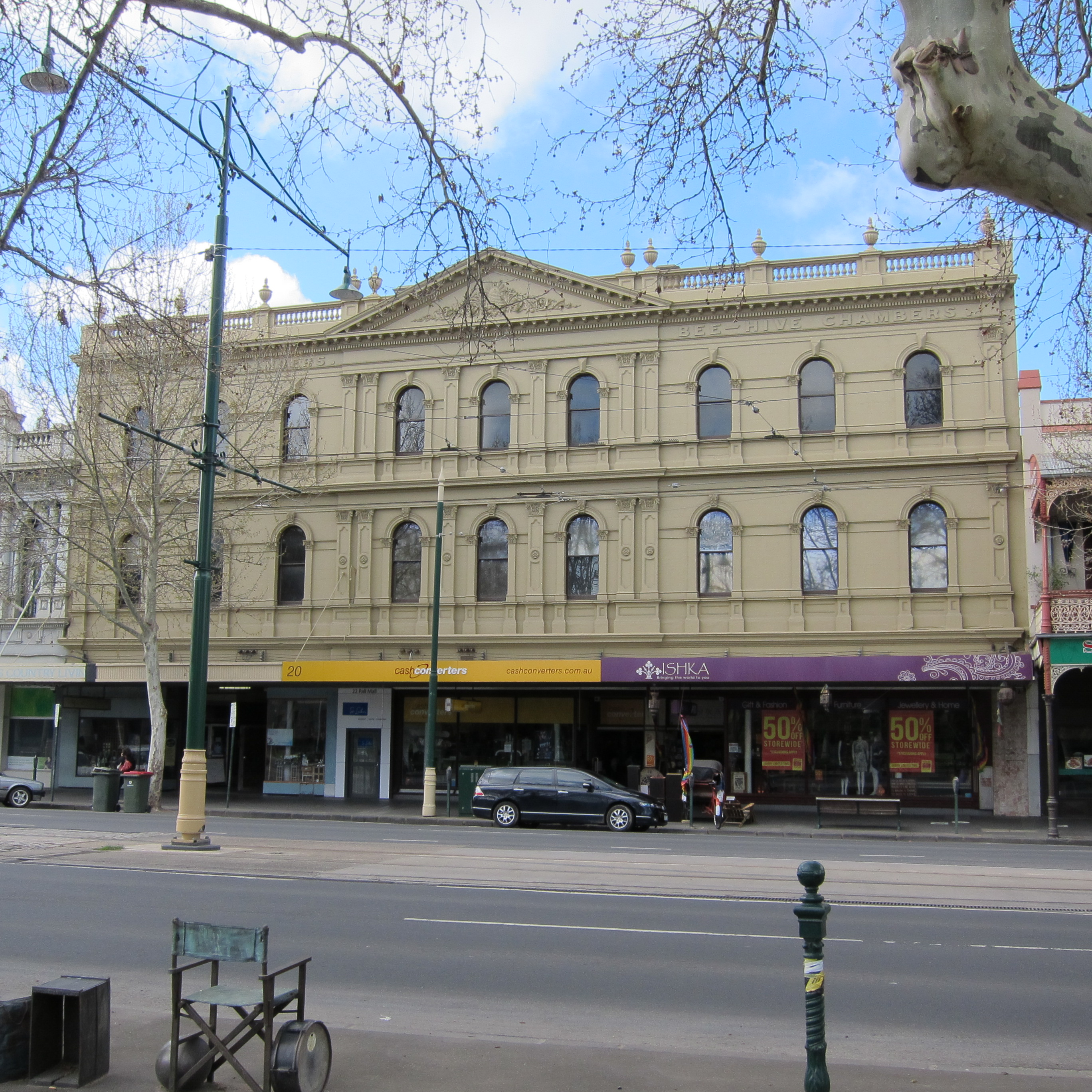 The Beehive Building is a building of historic importance in Bendigo, Australia. It was designed by Charles Webb, an architect of note in the region. The Beehive retail business established in Bendigo circa 1860, this building was built in 1872.